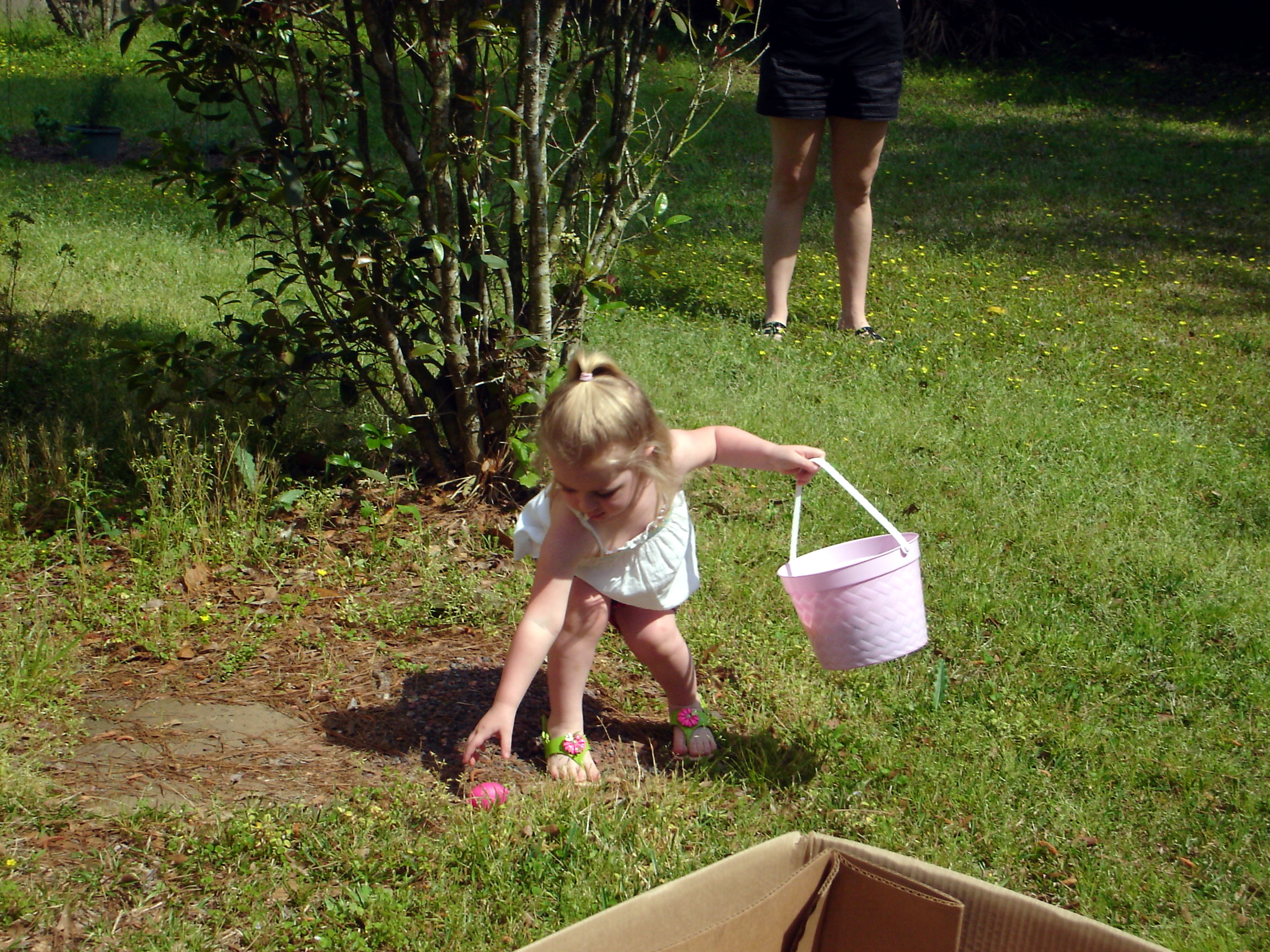 Girl hunting Easter Eggs, Baton Rouge, Louisiana.